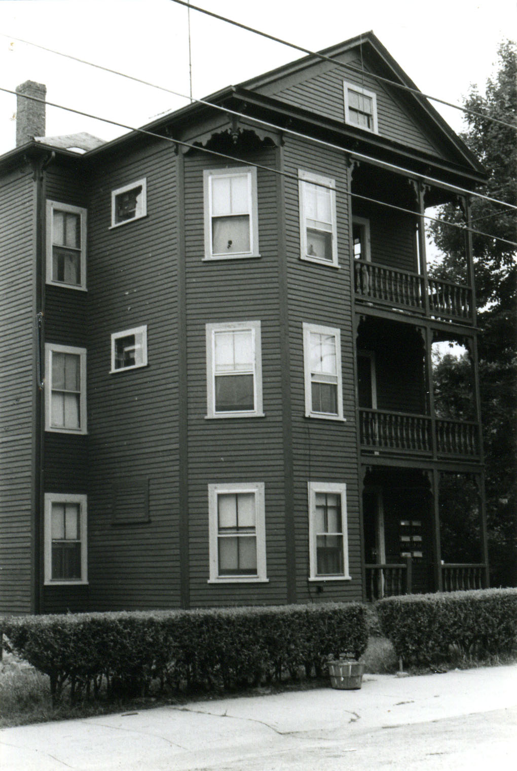 House at 91 Coombs Street, Southbridge, Massachusetts. This building has been demolished.